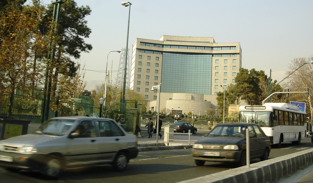 The second east entrance of IRIB's compound along Vali Asr Ave.